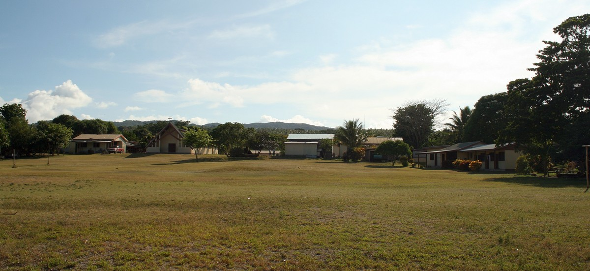 View on Lowanatom mission from the beach. On the left is the church, on the extreme right is the house of the Brothers of Sacred Heart community.